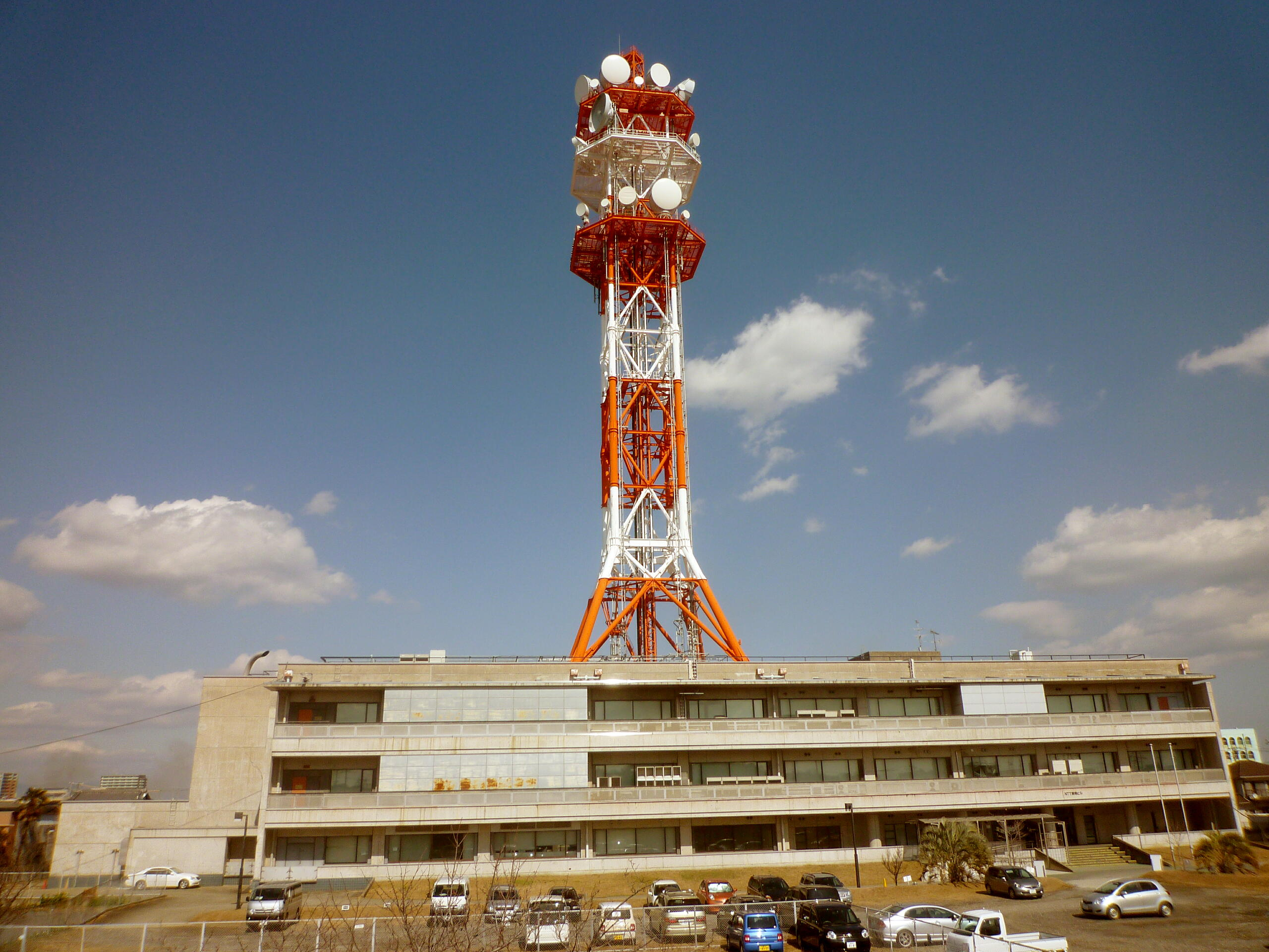 The "NTT Tsu-Minami Building" in Saiwai-chō, Tsu City,Mie Prefecture,Japan.